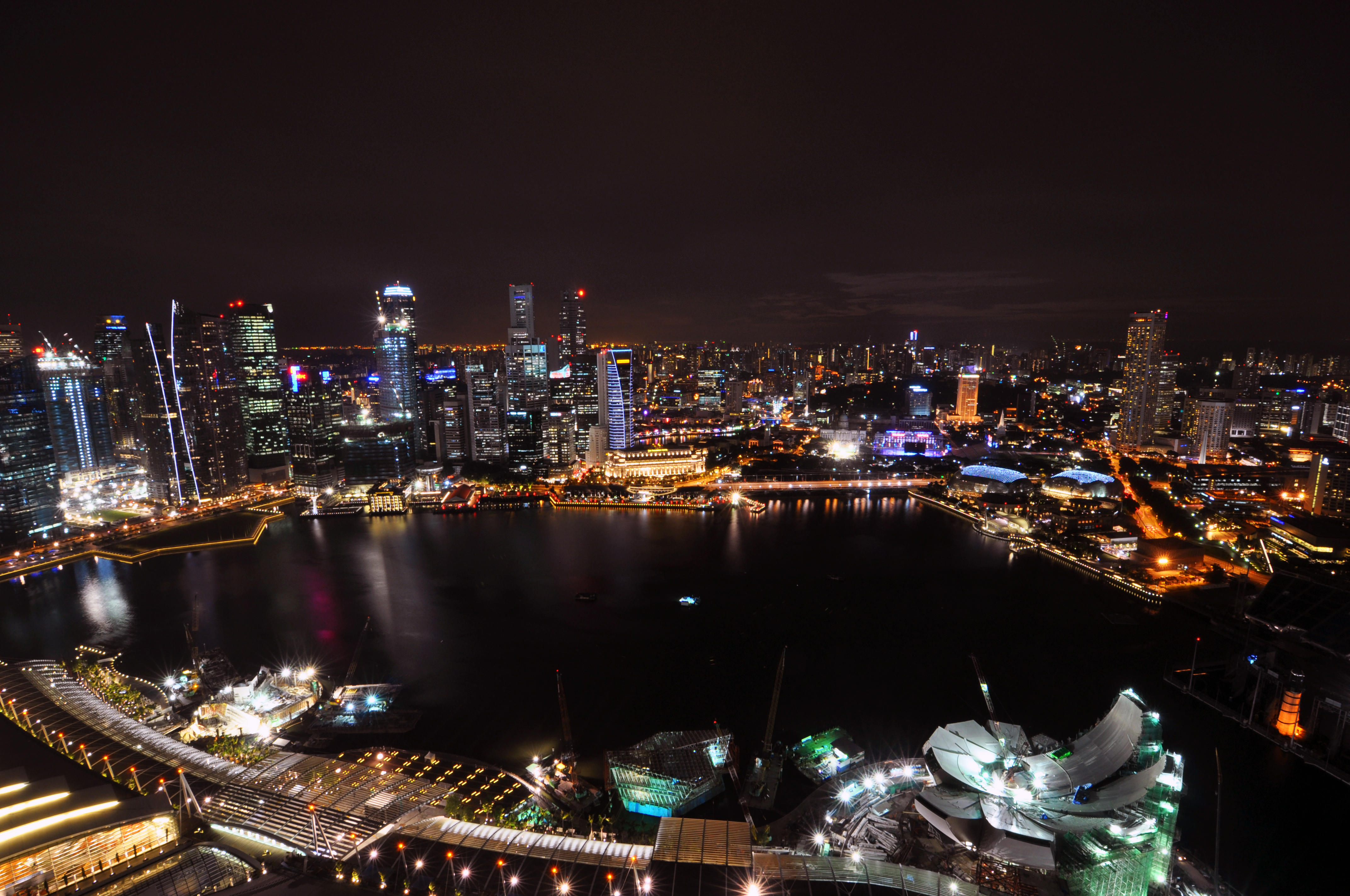 Marina Bay Sands Skypark night panorama CBD skyline Esplanade City Hall Supreme Court Singapore 2010